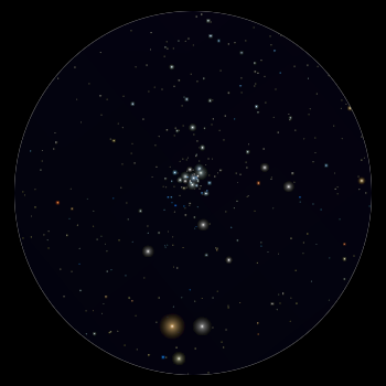 NGC 6231